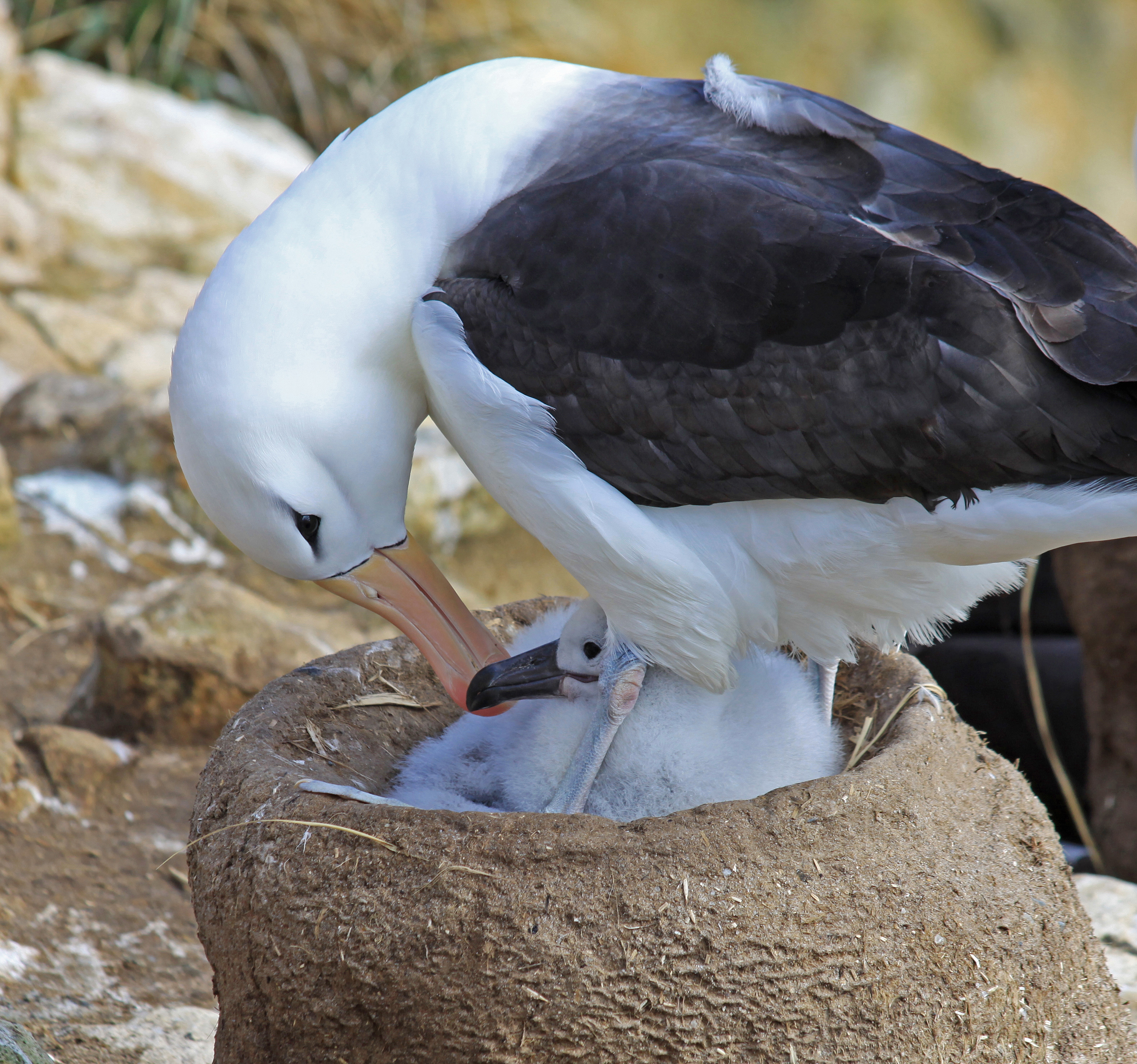 Black-browed albatross at brood care, Falkland Islands